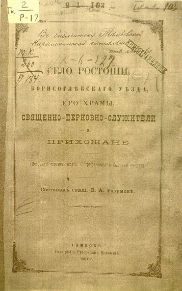 Книга о. В. Разумова - фундаментальный источник по истории села.